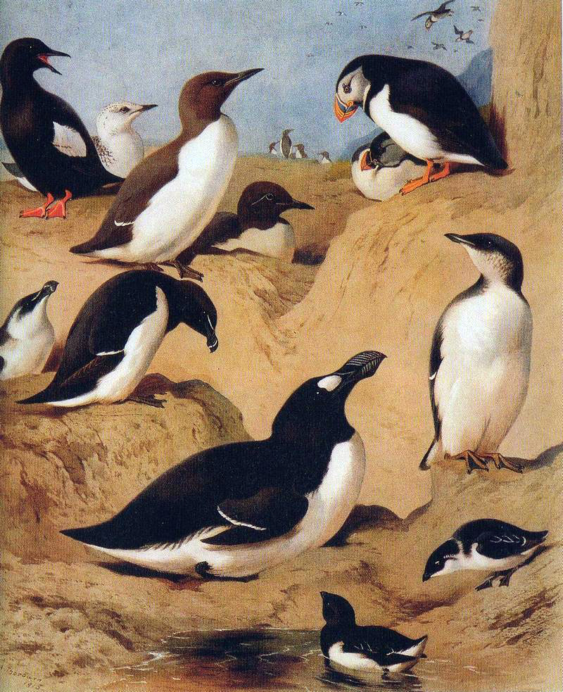 The Great Auk Pinguinus impennis surrounded by its true relatives Alca torda Alle alle Cepphus grylle Fratercula arctica Uria aalge Uria lomvia